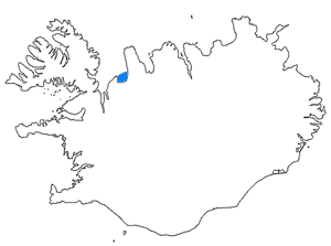 Location of Húnafjörður, Iceland